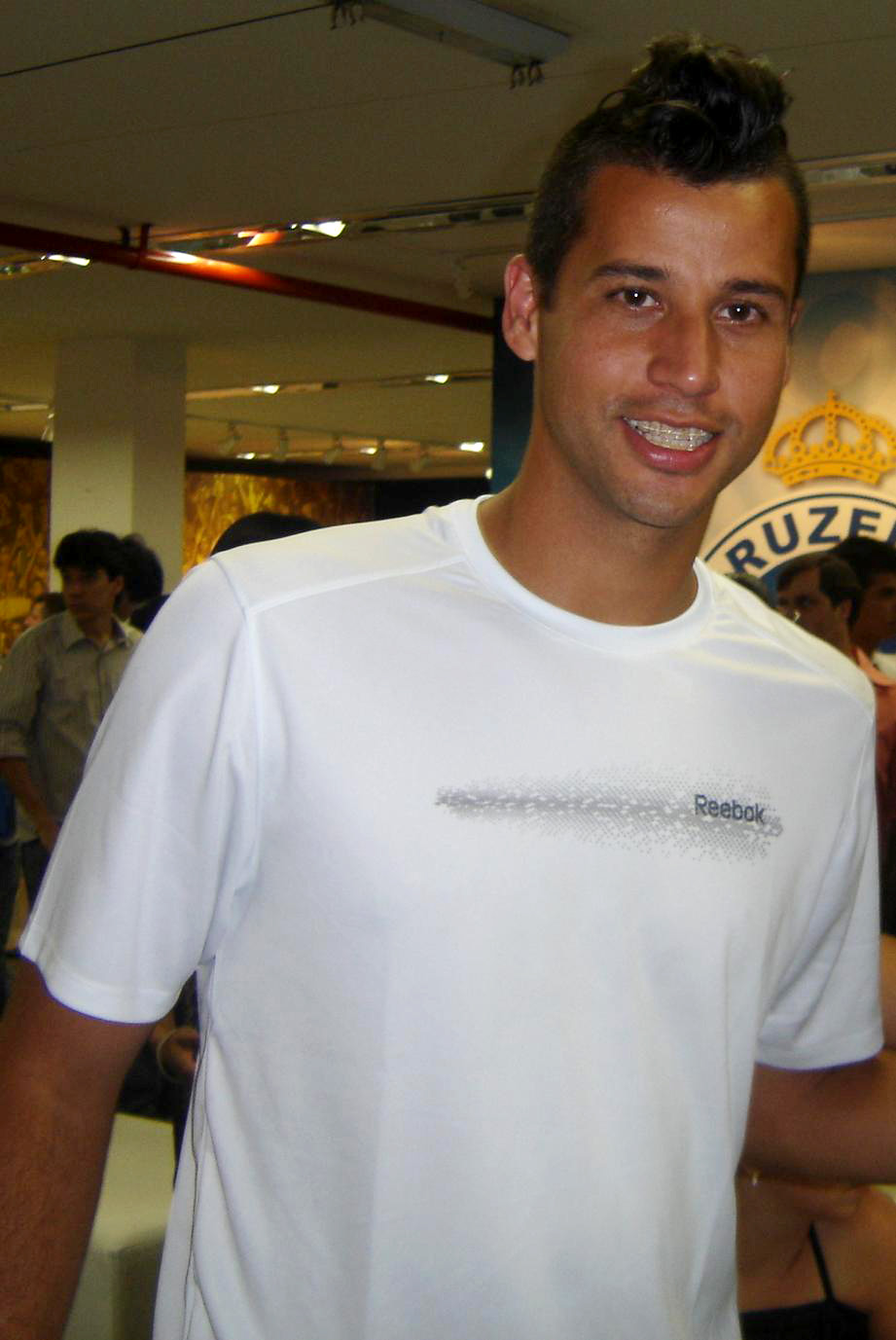 Brazilian football player Fábio Deivson Lopes Maciel of Cruzeiro Esporte Clube.